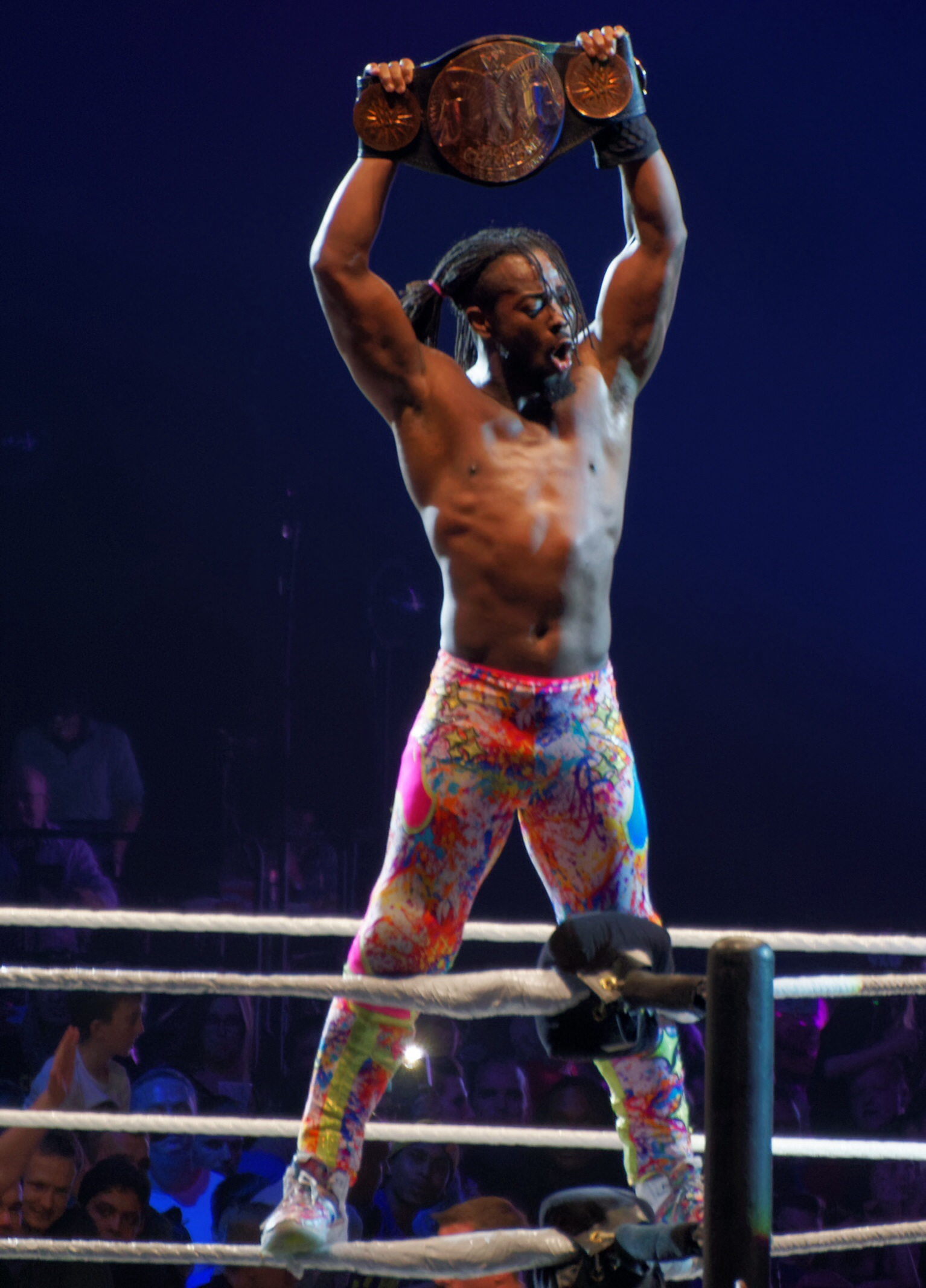 WWE Live returns to London this September Join Roman Reigns, Seth Rollins and more WWE Superstars at the 02 Arena for a one-night-only WWE Live in London on Wednesday, 7 Sept. Big E (c) & Kofi Kingston (c) def. (pin) Karl Anderson & Luke Gallows For : WWE Raw Tag Team Championship